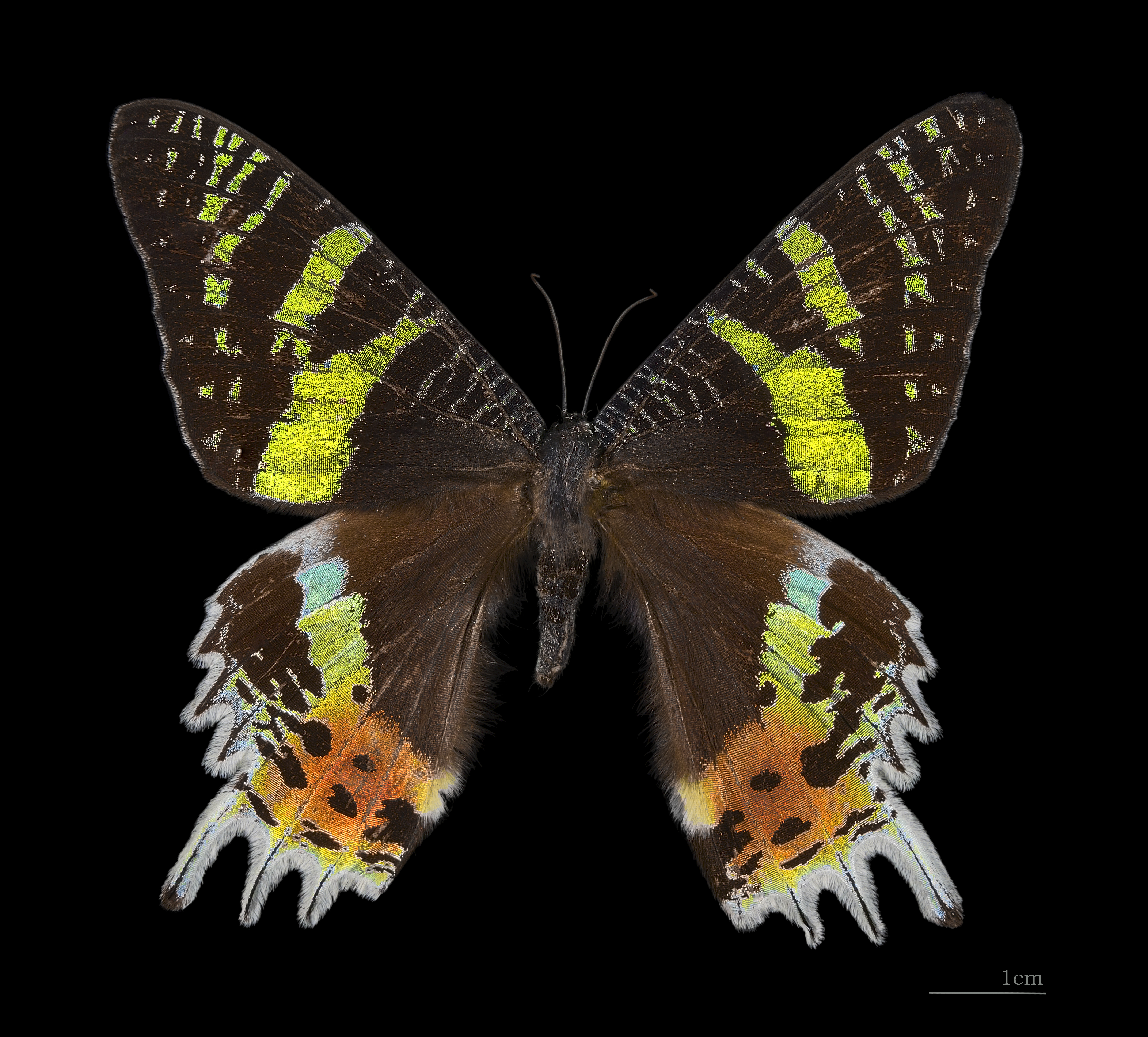 Madagascan sunset moth - Dorsal side